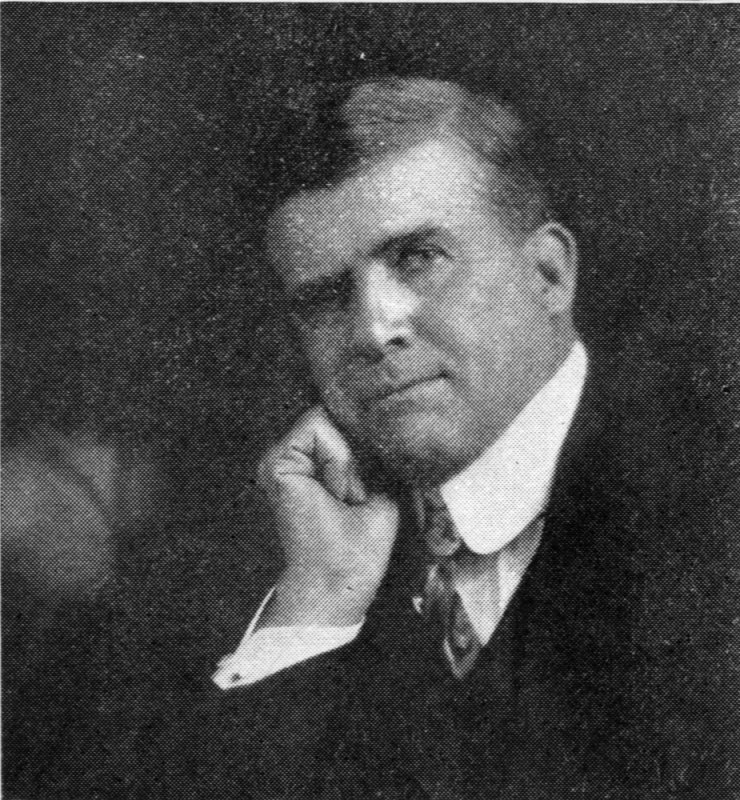 Denver S. Church, United States congressman